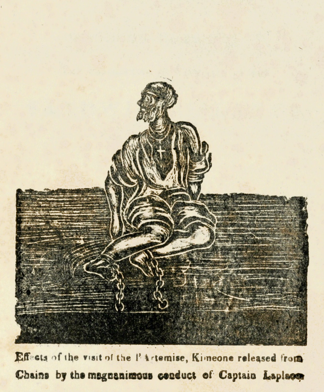 Effects of the visit of the 'L'Artemise,' Kimeone released from chains by the magnanimous conduct of Captain Laplace. One of four crude woodcuts, which have been attributed to Jules Dudoit. Showing Catholic persecution in Hawaii. Supplement to the Sandwich Islands Mirror containing an Account of the Persecution of Catholics at the Sandwich Islands ... January 15, 1840. Honolulu: R. J. Howard, Printer, [1840]. 3 woodcut plates. 100 pp. 8vo (230 x 132 mm). Period speckled wrappers. Foxing (heavy at ends), lacking 1st woodcut, wrappers frayed with backstrip lacking.